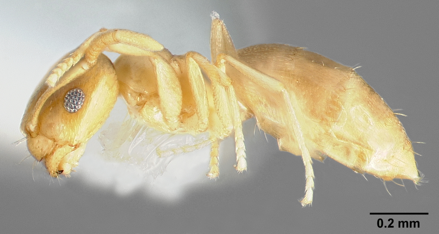 Profile view of ant Brachymyrmex depilis specimen casent0005338.